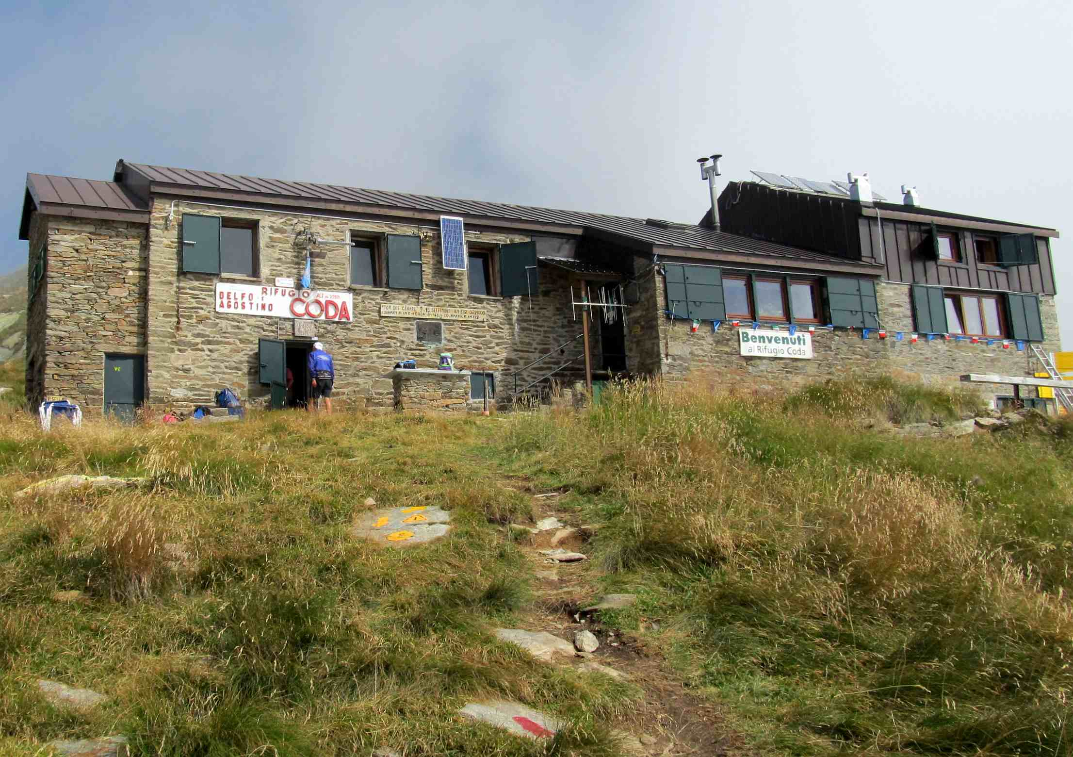 Delfo e Agostino Coda mountain hut (BI, Italy)